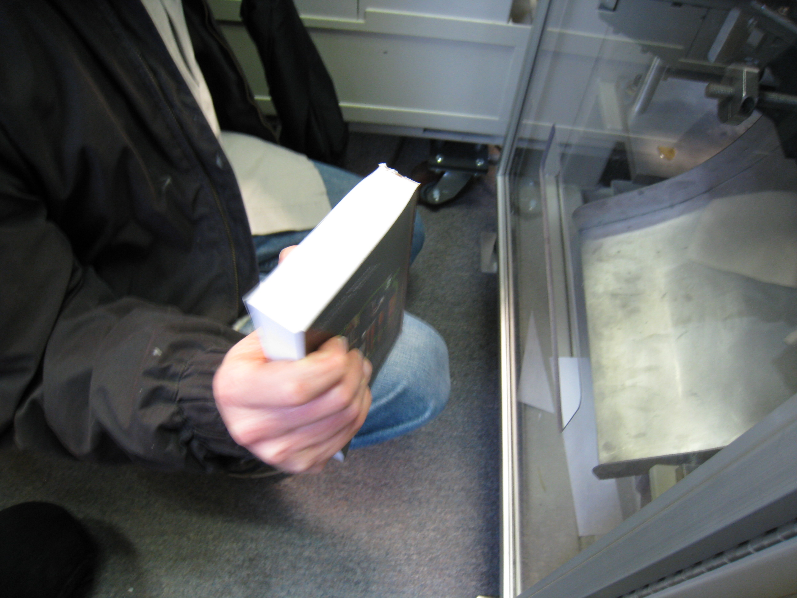 An on-demand book printer at the Internet Archive headquarters in San Francisco, California. A finished copy of Darwin's On the Origin of Species emerges from a slot about 20 minutes after the job was started.